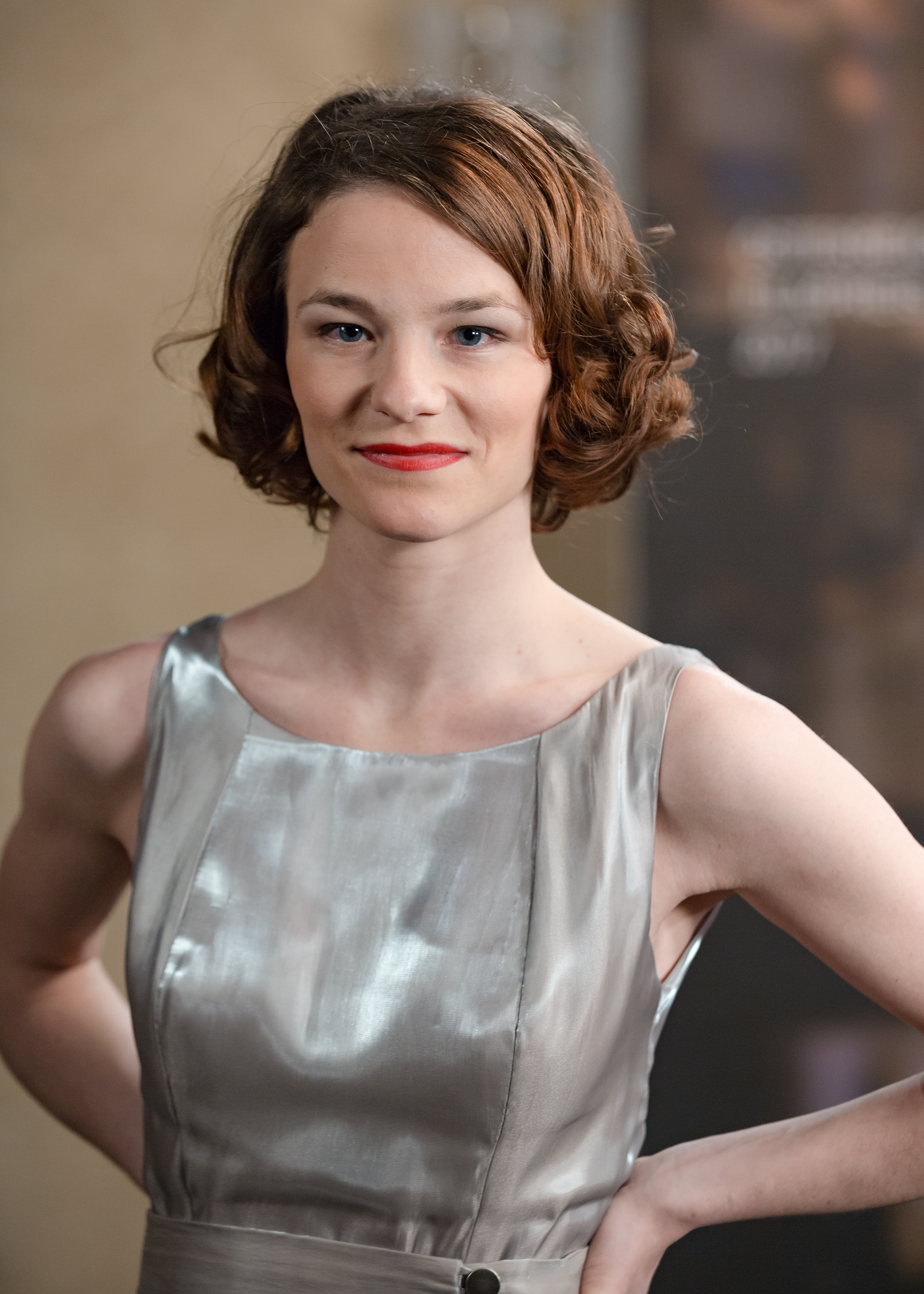 Valerie Pachner, actress in Egon Schiele: Tod und Mädchen, at the Austrian Film Awards 2017 (Rathaus, Vienna,Austria).